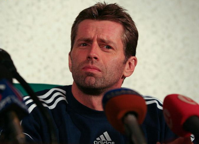 Michael Skibbe